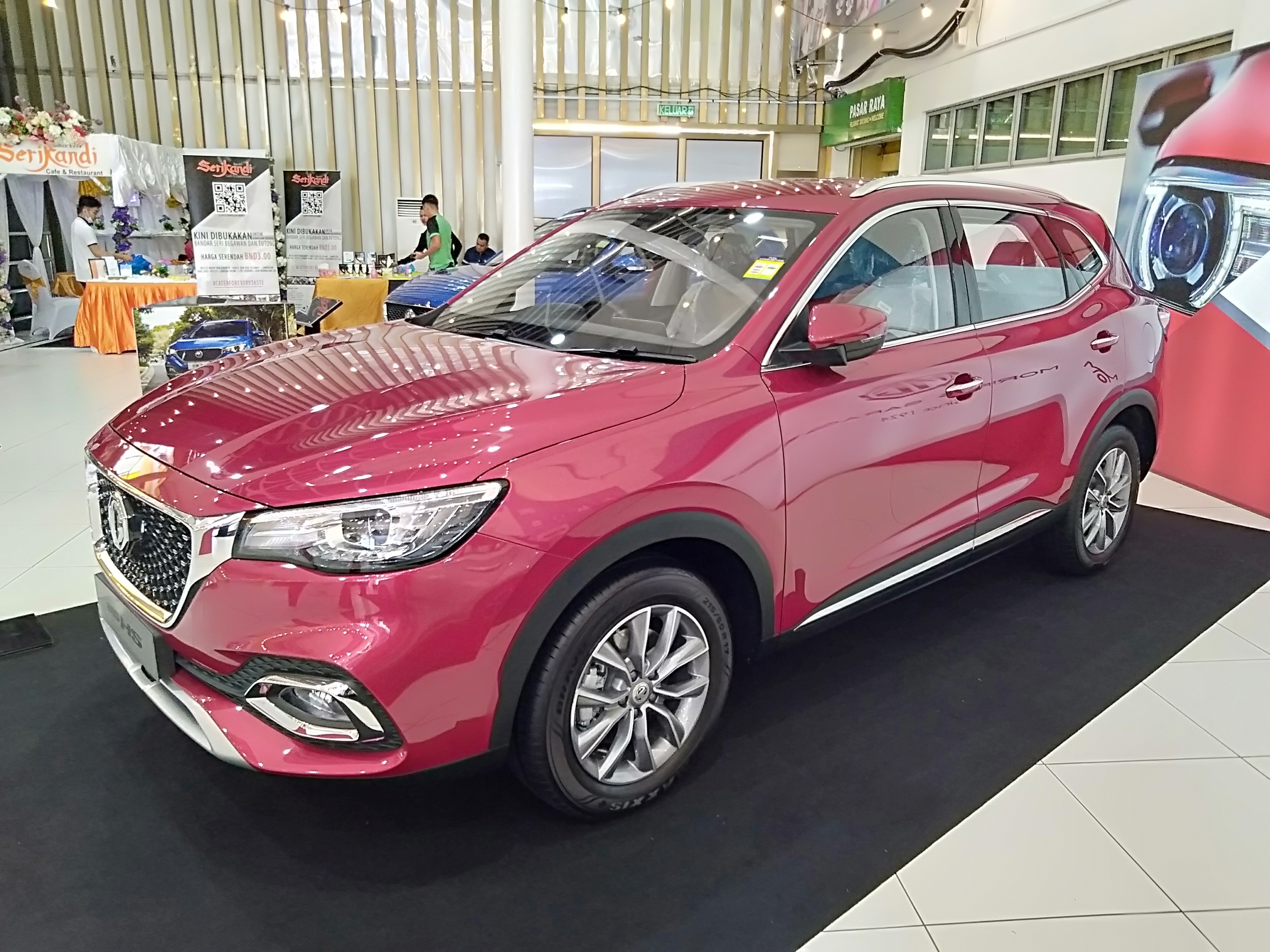 2020 MG HS 1.5 COM front view. Photographed at Rimba Point Shopping Centre, Rimba, Brunei.